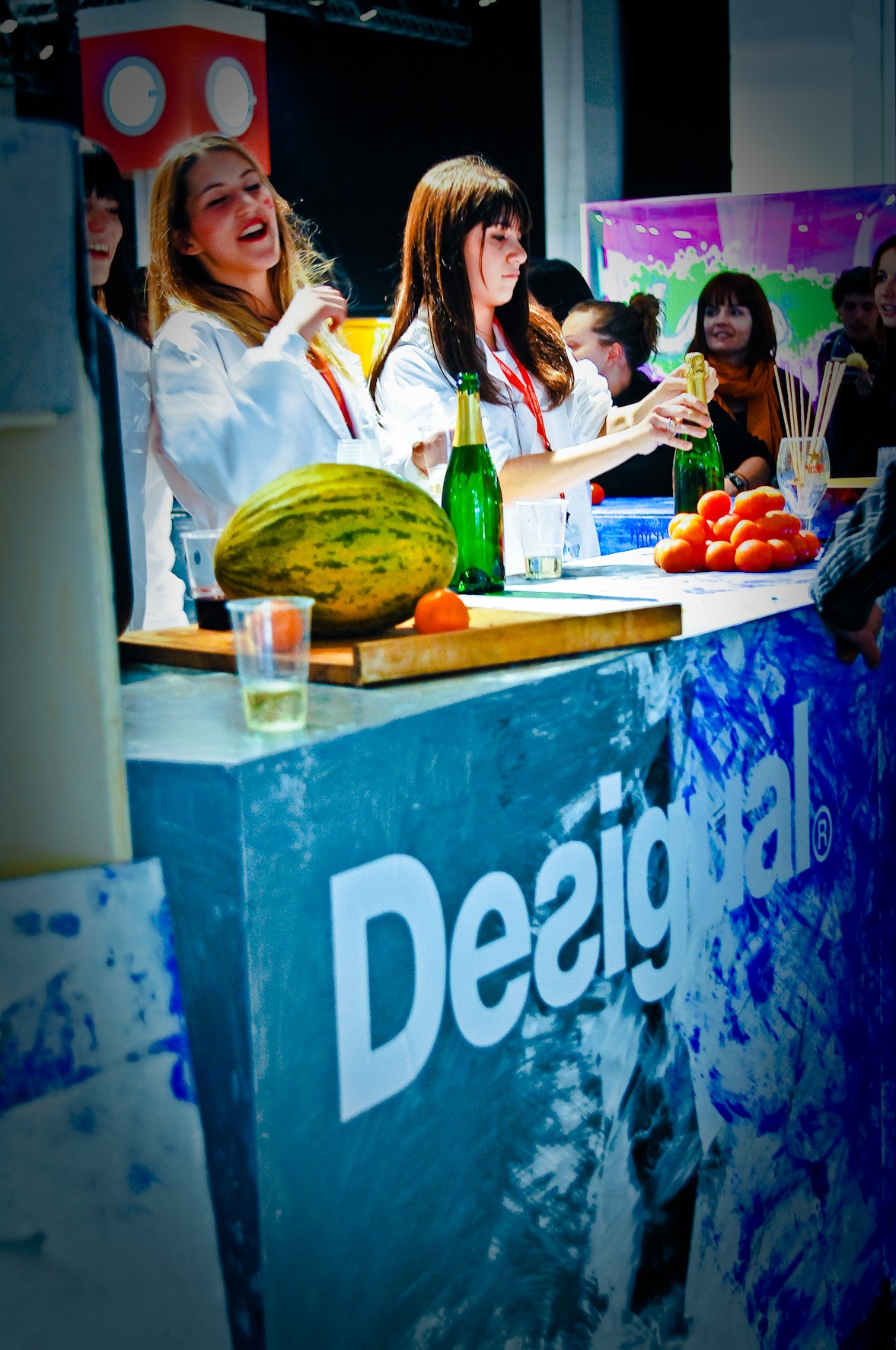 Desigual at The Brandery Winter Edition 2010